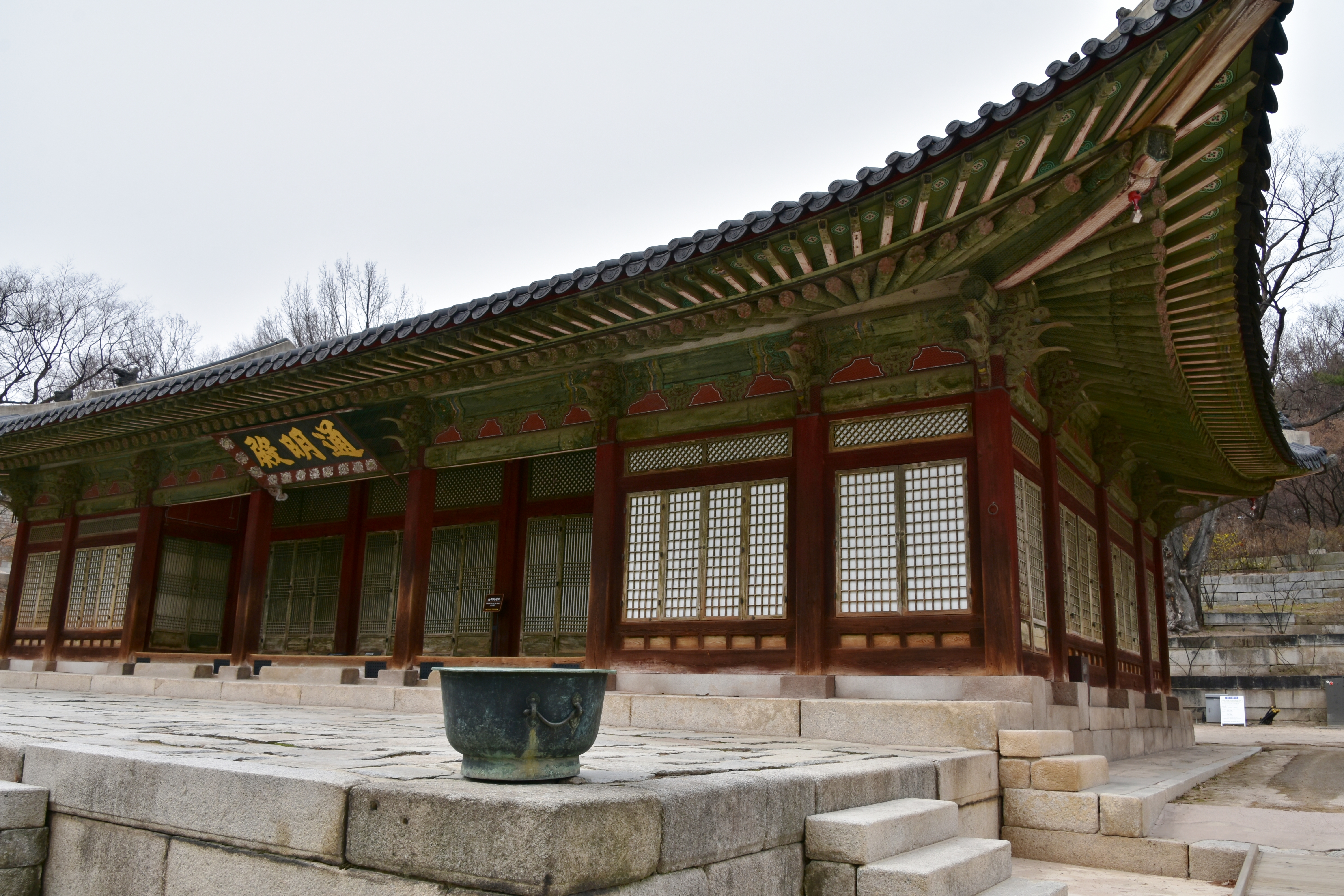 Changgyeonggung Palace, Seoul, erly 15th century (3)